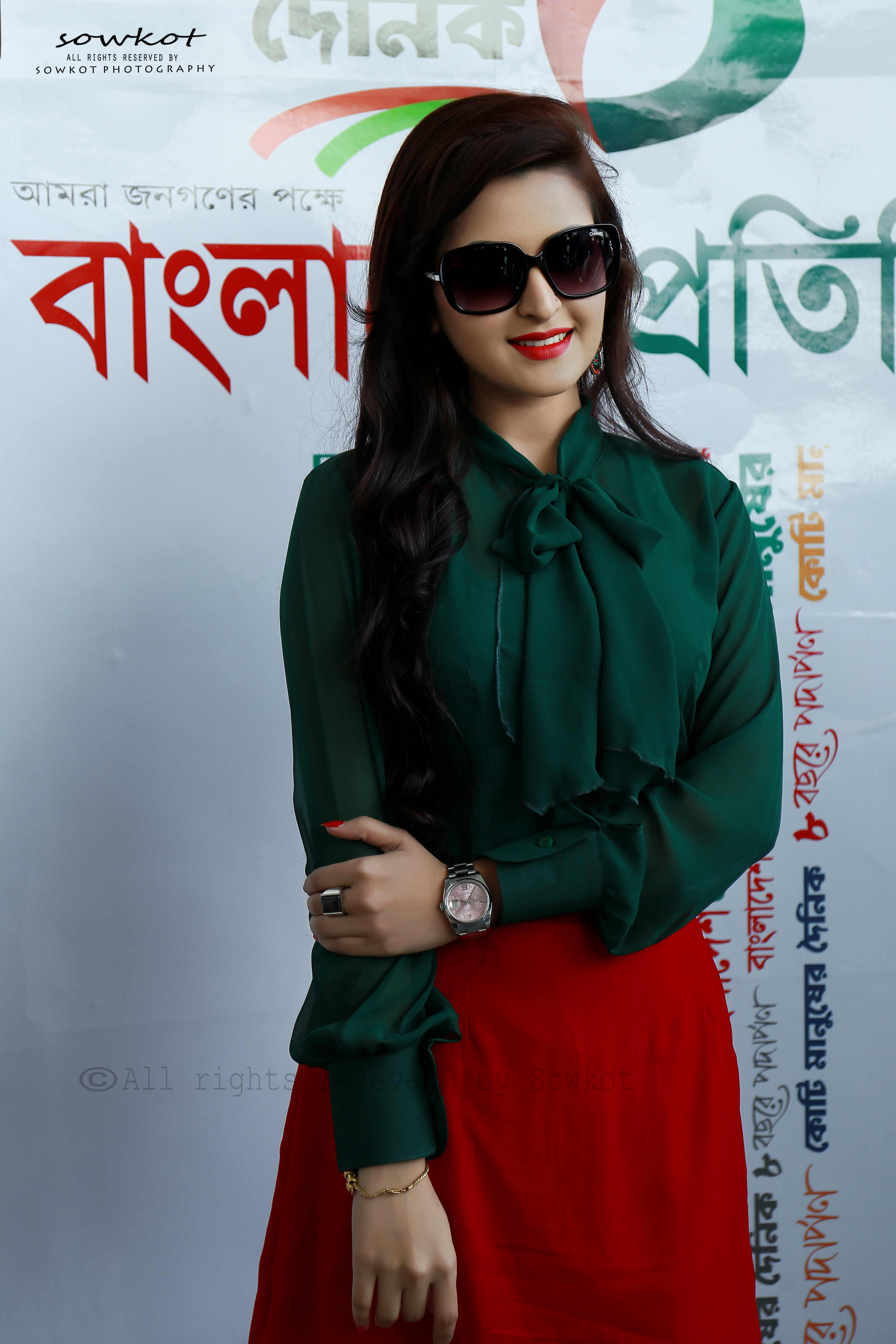 Pori Moni is a famous film actress in Bangladesh. She is one of the most beautiful actress in Bangladesh. This Photo was taken when she was at shooting of a Movie.